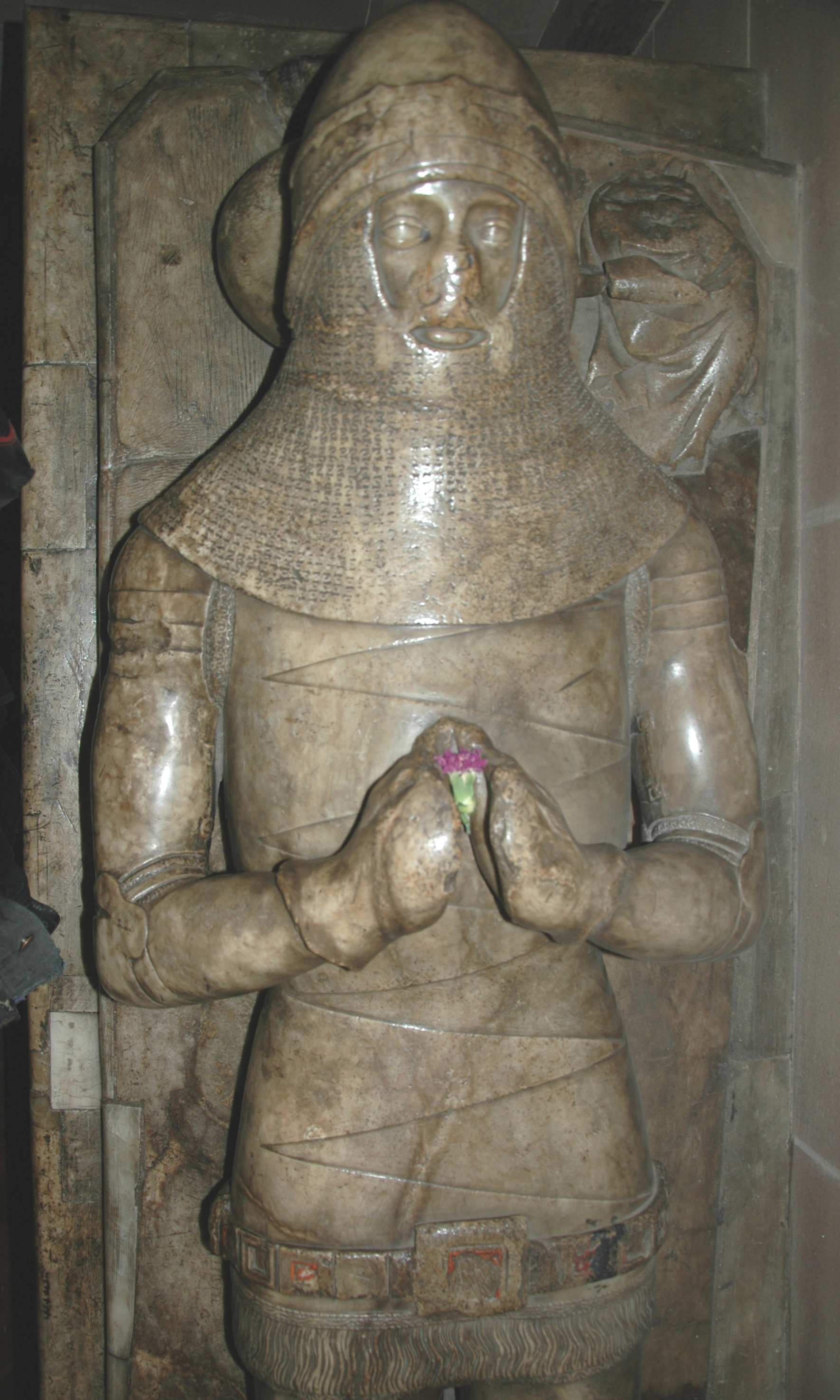 Church of England parish church of St Martin, Birmingham: tomb effigy, circa 1400, believed to be Sir John de Bermingham